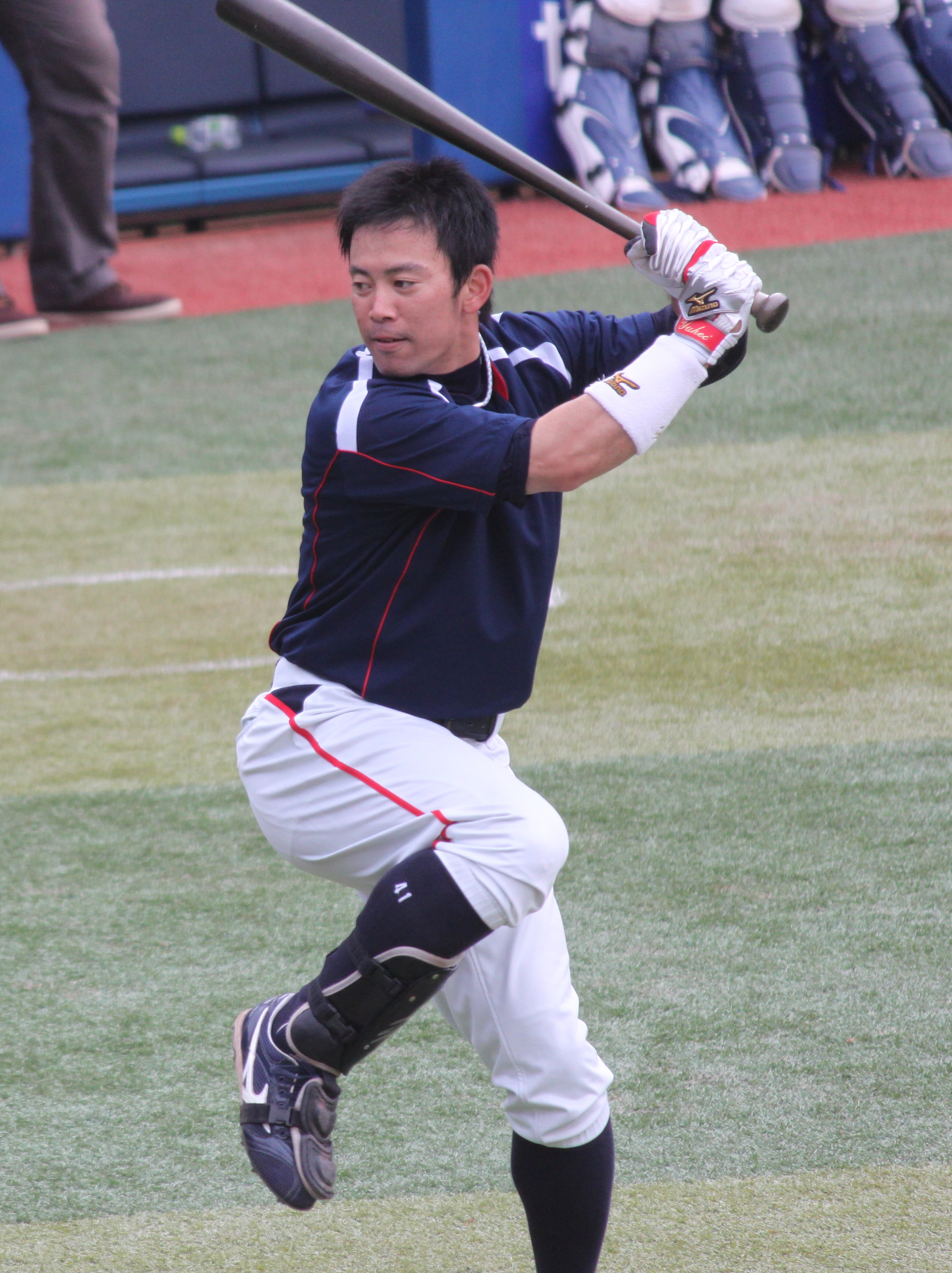 Yuhei Takai, outfielder of the Tokyo Yakult Swallows, at Yokohama Stadium.